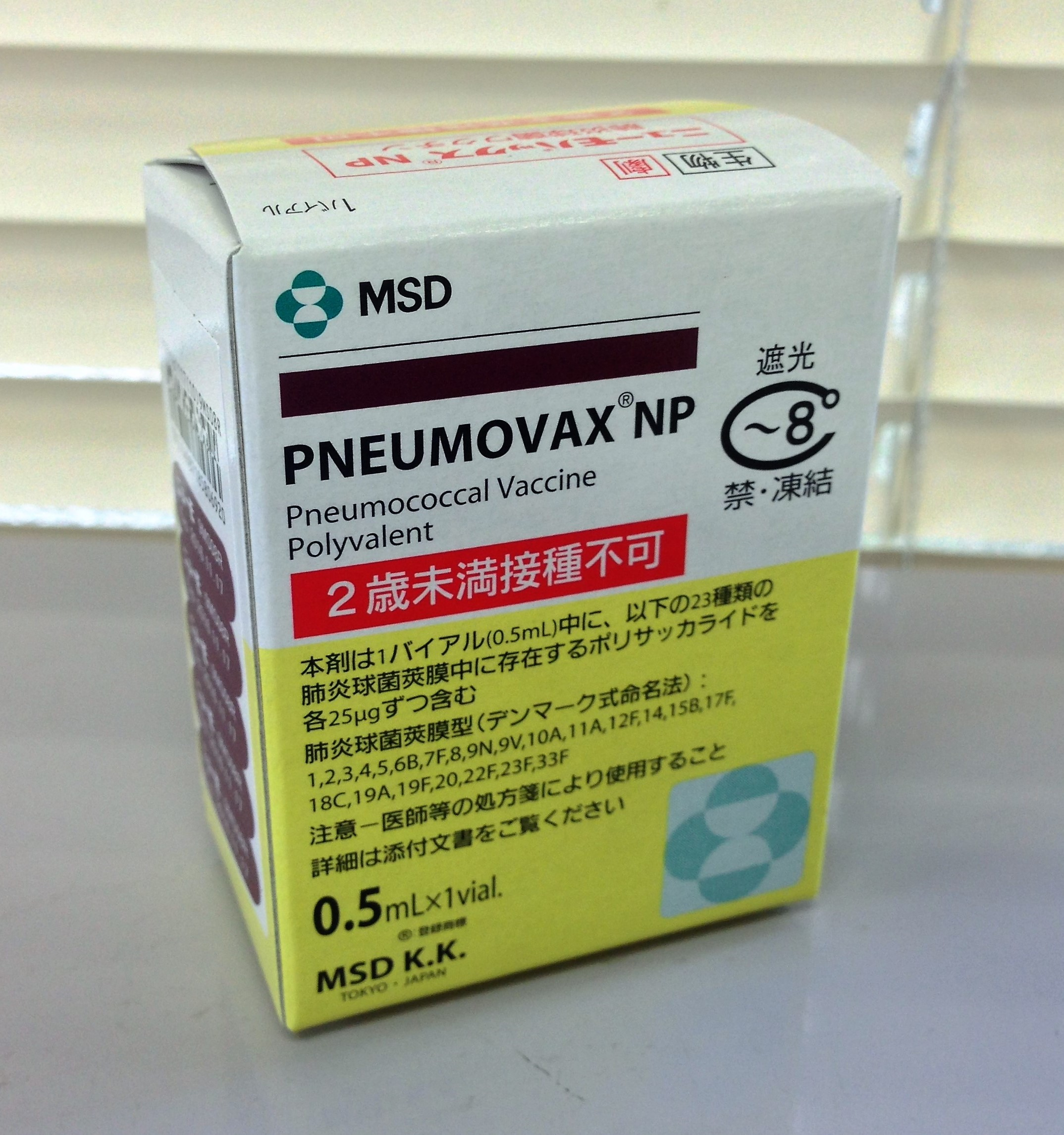 Pneumovax ; Pneumococcal Vaccine